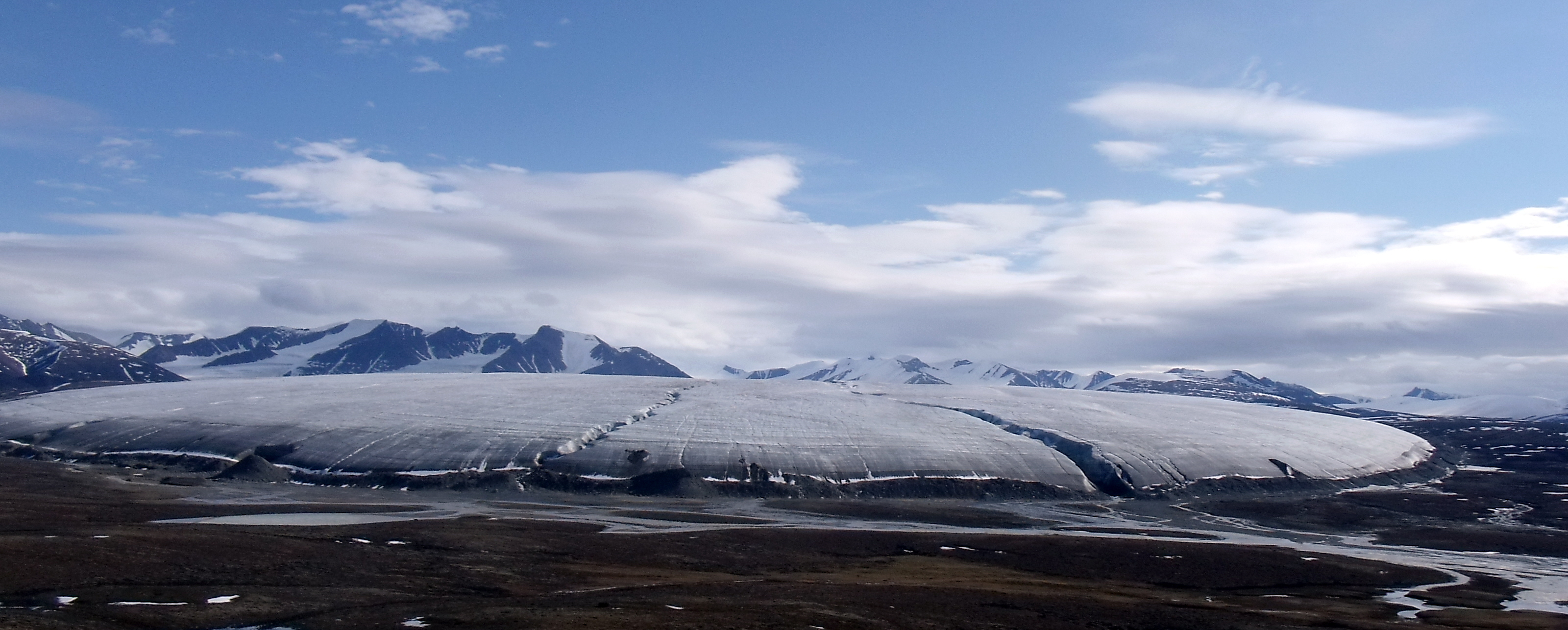 A much larger mothership than before. This mountain glacier is one of many streams of ice coming down from the interior ice cap on top of Byam Martin Mtns. View large to see this 3 mile wide tongue's terminal moraine. Pond Inlet is the nearest community to Sirmilik National Park. For those folks looking for the most scenic places to visit in Canada's far north, I am one happy camper who will point you to landscape painter Cory Trepanier's video "Into the Arctic II".